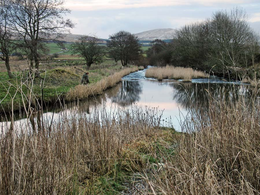 Confluence of Afton Water with River Nith